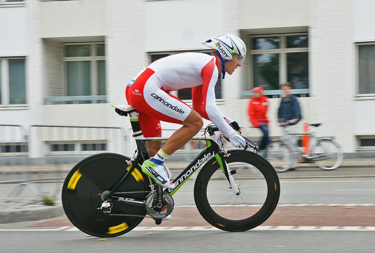 2011 UCI Road World Championships – Men's time trial - Maciej Bodnar, Poland